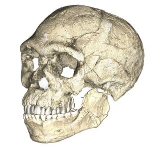 A composite reconstruction of the earliest known Homo sapiens fossils from Jebel Irhoud (Morocco) based on micro computed tomographic scans of multiple original fossils. Dated to 300 thousand years ago this early Homo sapiens already has a modern-looking face that falls within the variation of humans living today.